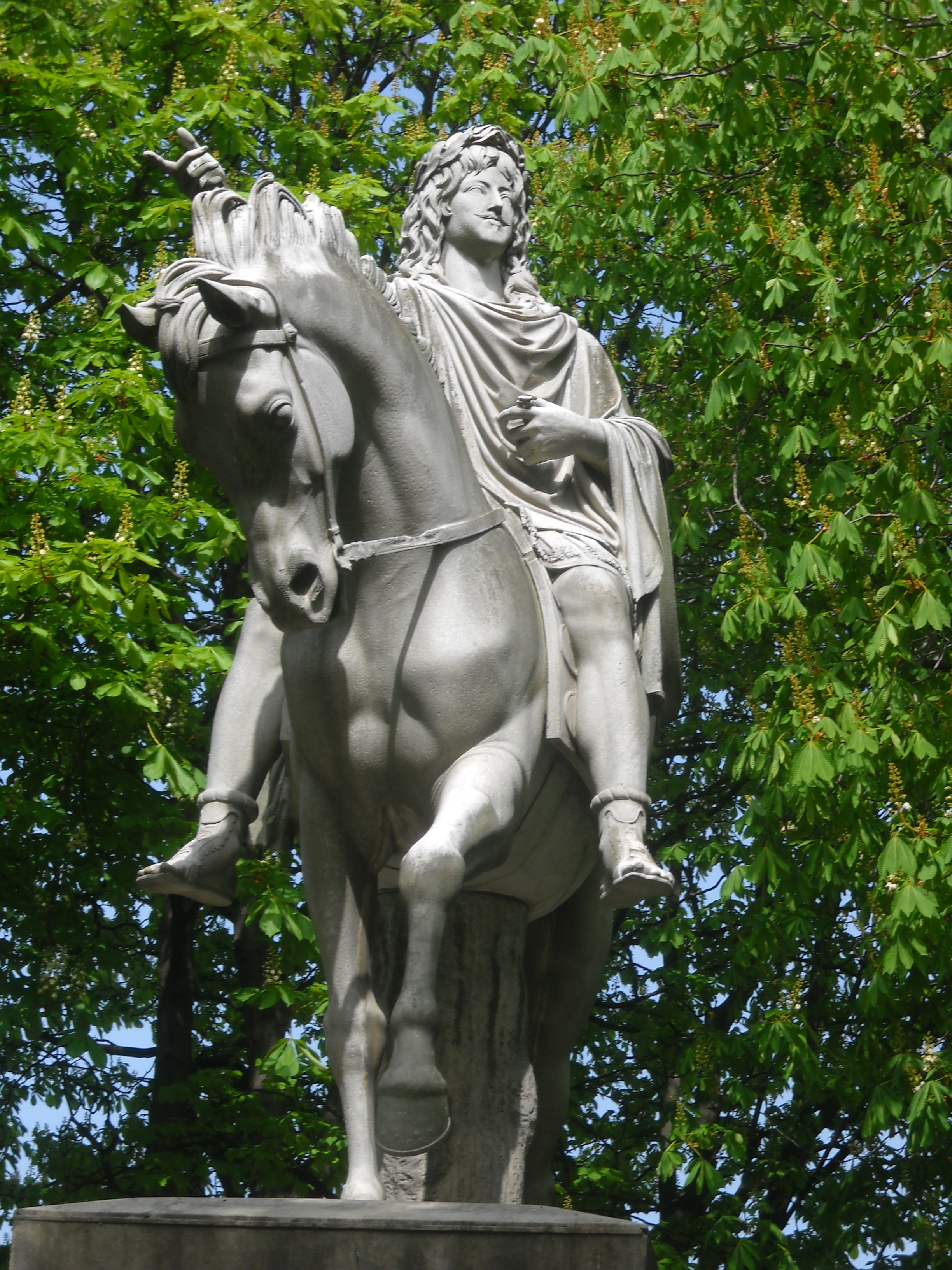 The Louis XIII of France's statue at Place des Vosges, in Paris, France.